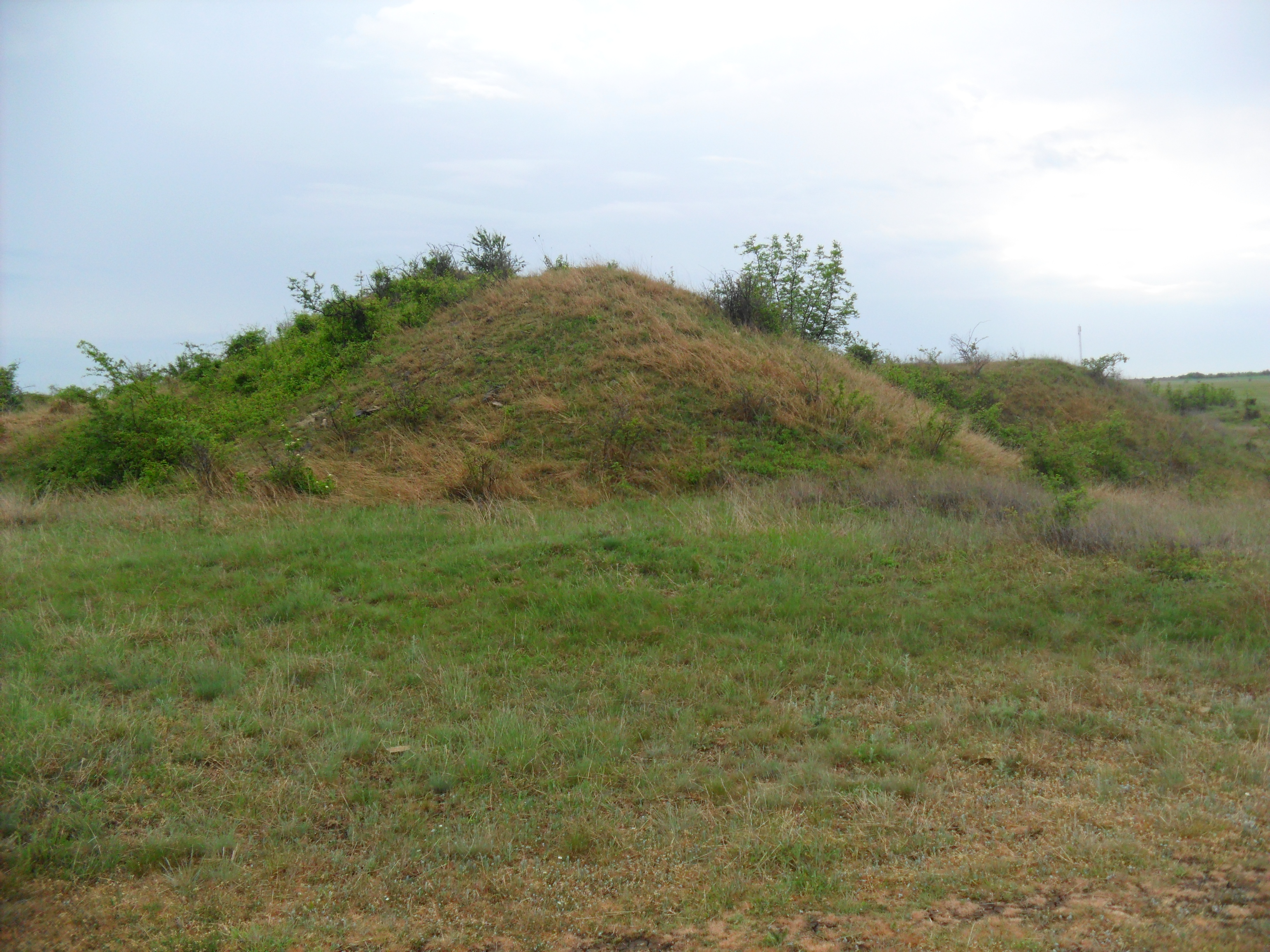 May 2015